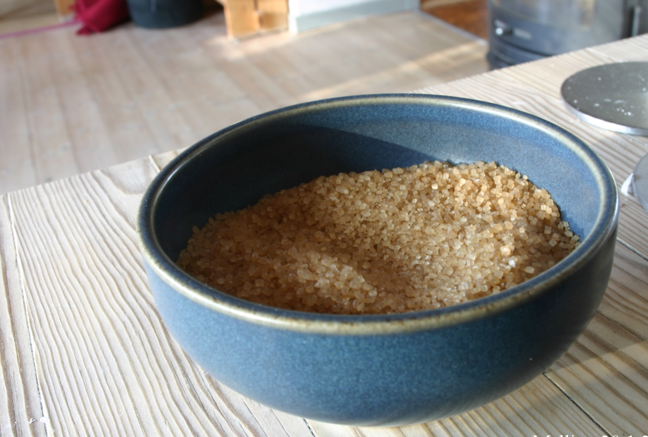 Cane sugar: Unrefined, biologically grown and processed